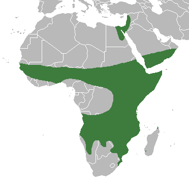 Ficus sycomorus distribution.